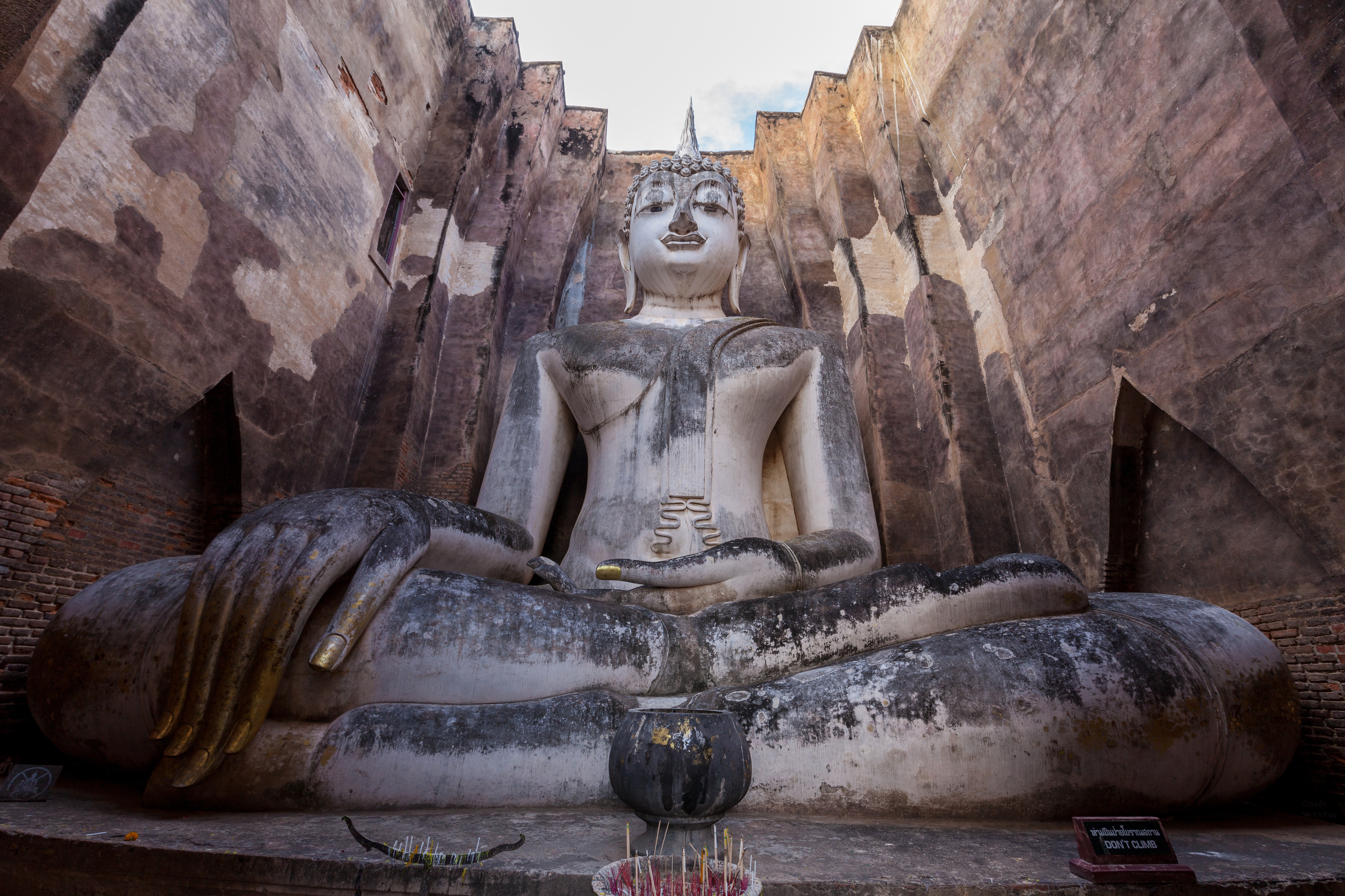 Phra Achana, Wat Si Chumin in Sukhothai historical park, Mueang Sukhothai District, Sukhothai Province, northern Thailand.